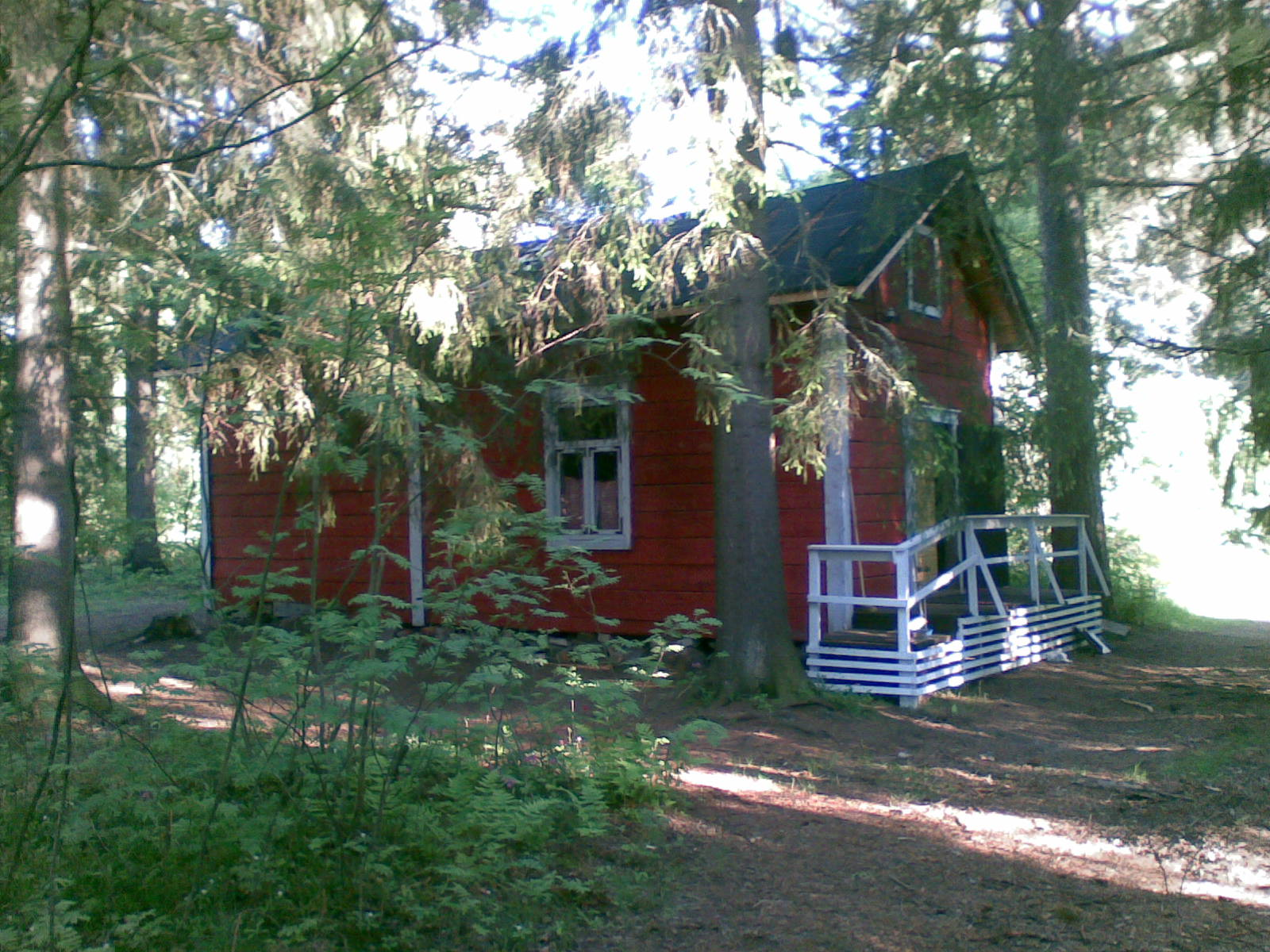 Sauna building of Villa Pukkila, Hietasaari, Oulu, Finland